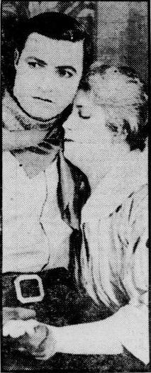 Still from the American western film The Speed Maniac (1919) with Tom Mix and Eva Novak, on page 11 of the February 21, 1920 Duluth Herald.